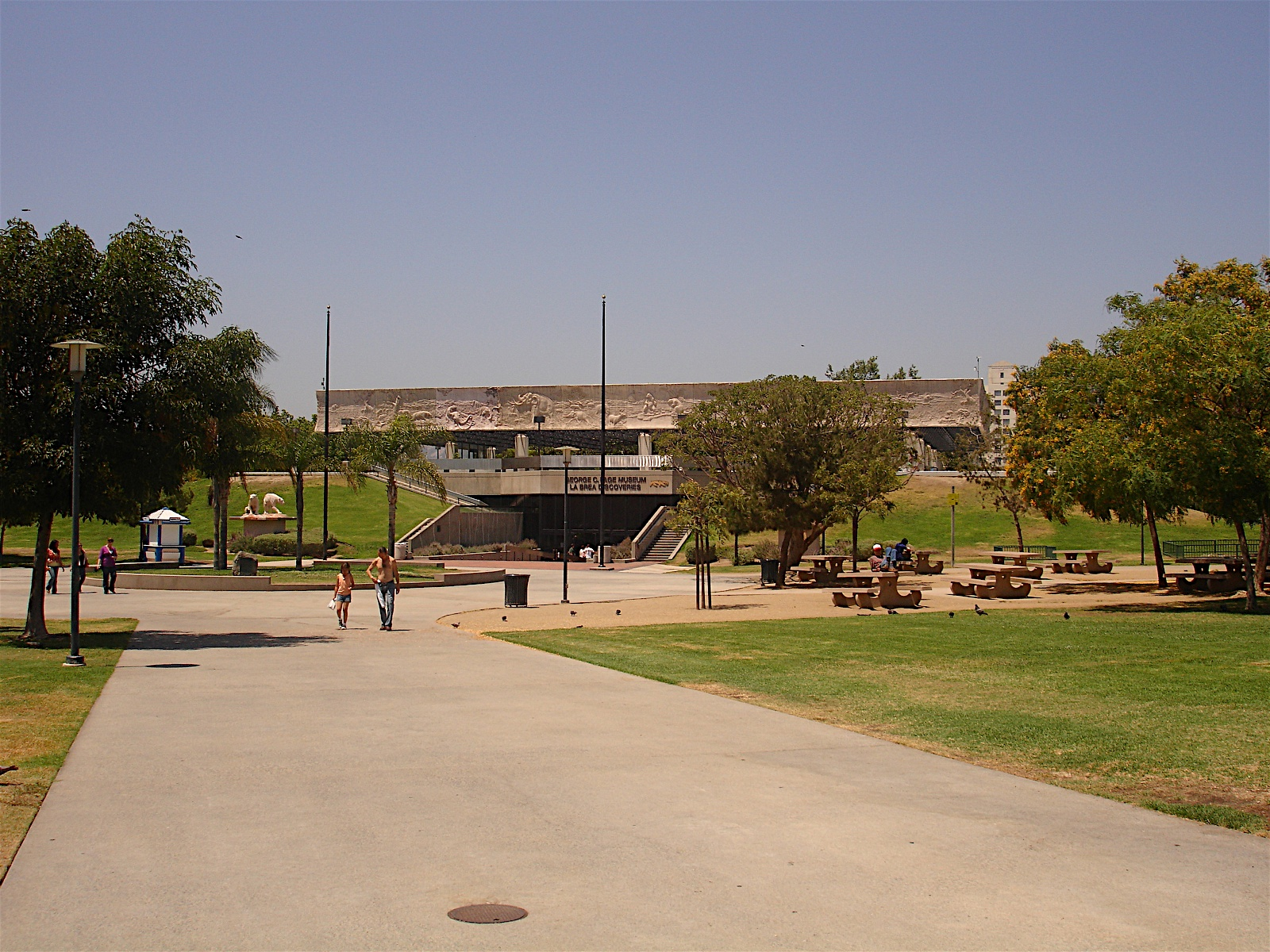 La Brea Tar Pits, George Page Museum